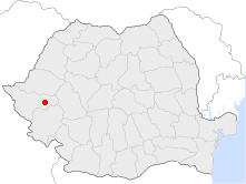 Location of Lugoj in Romania.